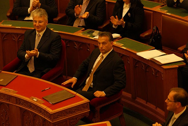 Miniszterelnök választás / 3.